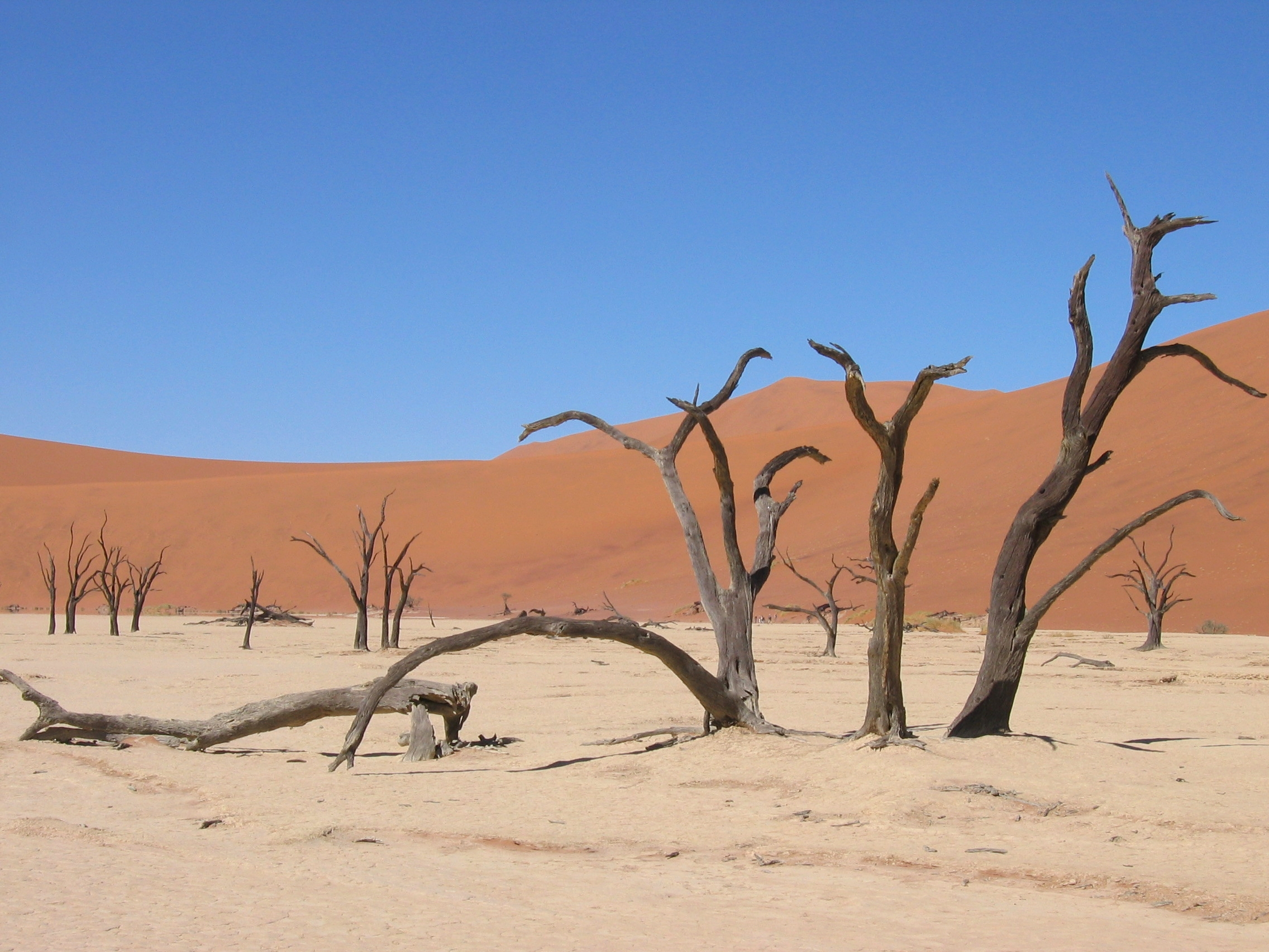 Dead trees in the clay pan of the Deadvlei, Sossusvlei, Namibia